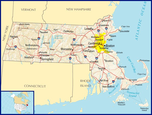 Edited version of the National Atlas of the United States, removing a lot of the border and side stuff.